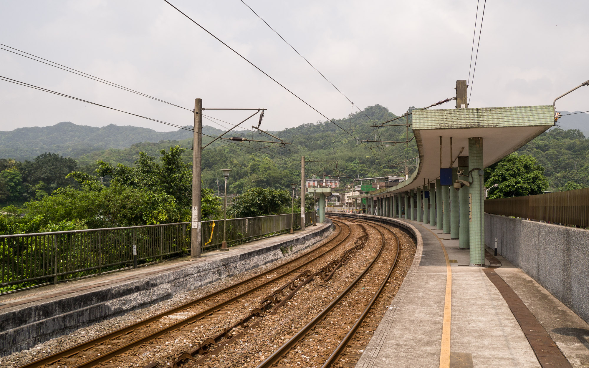 牡丹車站 TRA Mudan Station